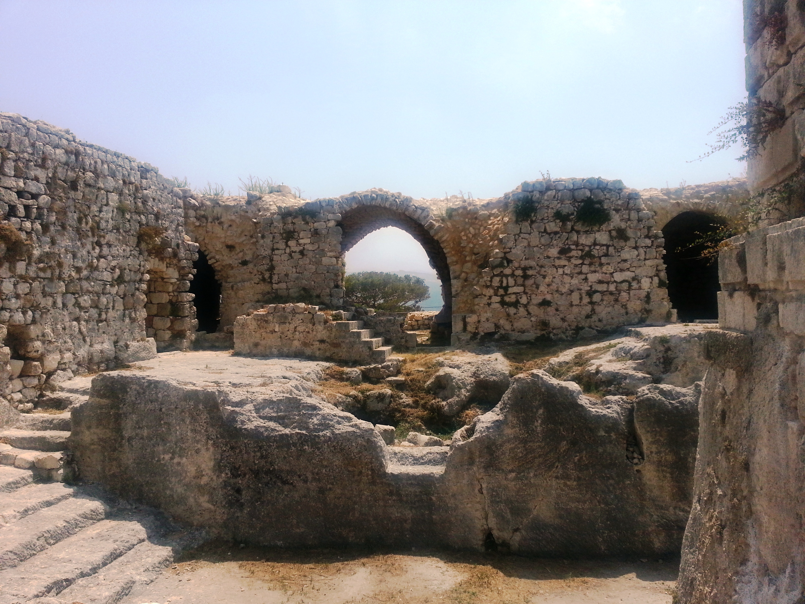 Castle inside